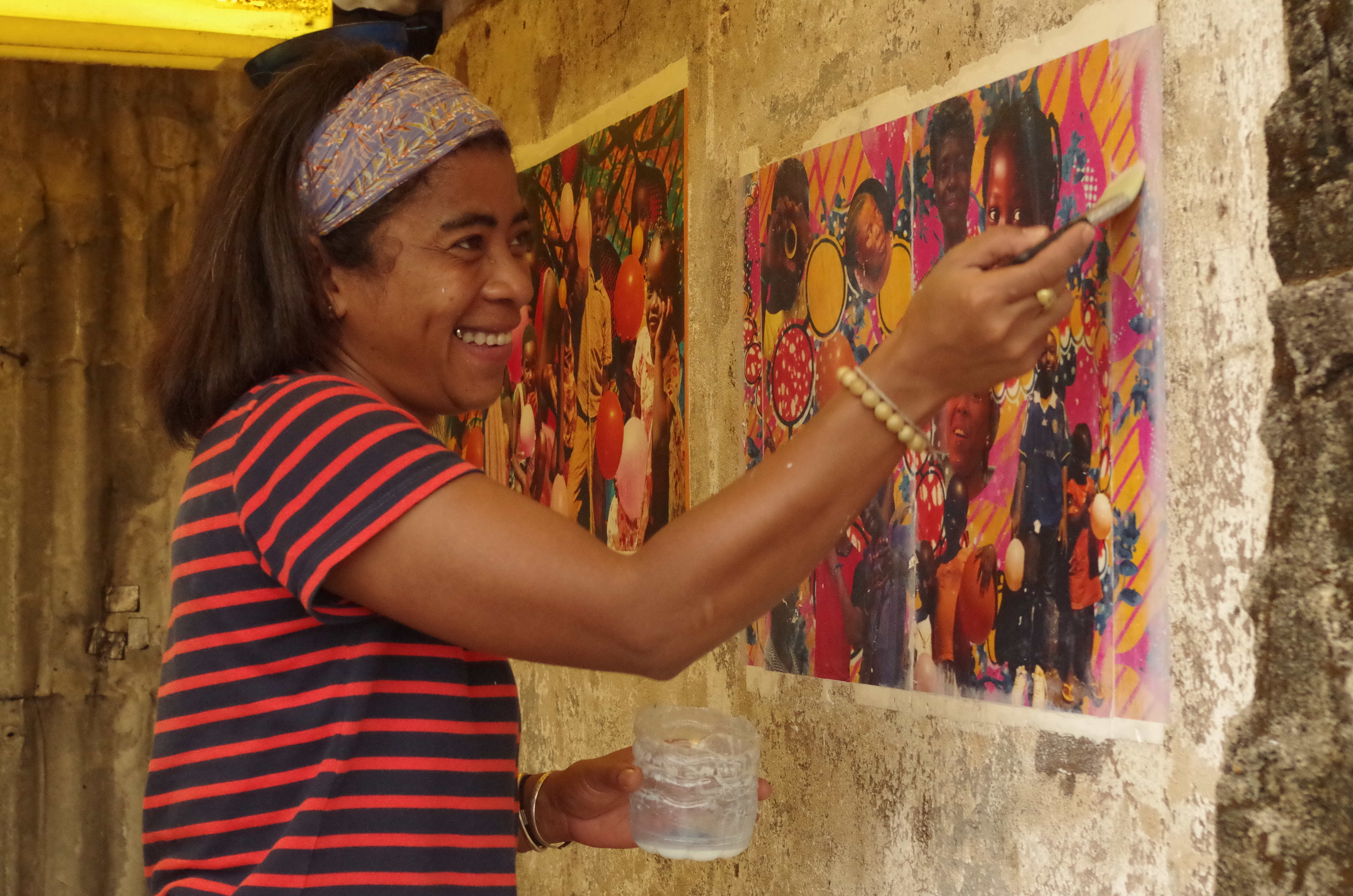 Malala Andrialavidrazana for C.A.I.R.E. 2013 - before the opening.